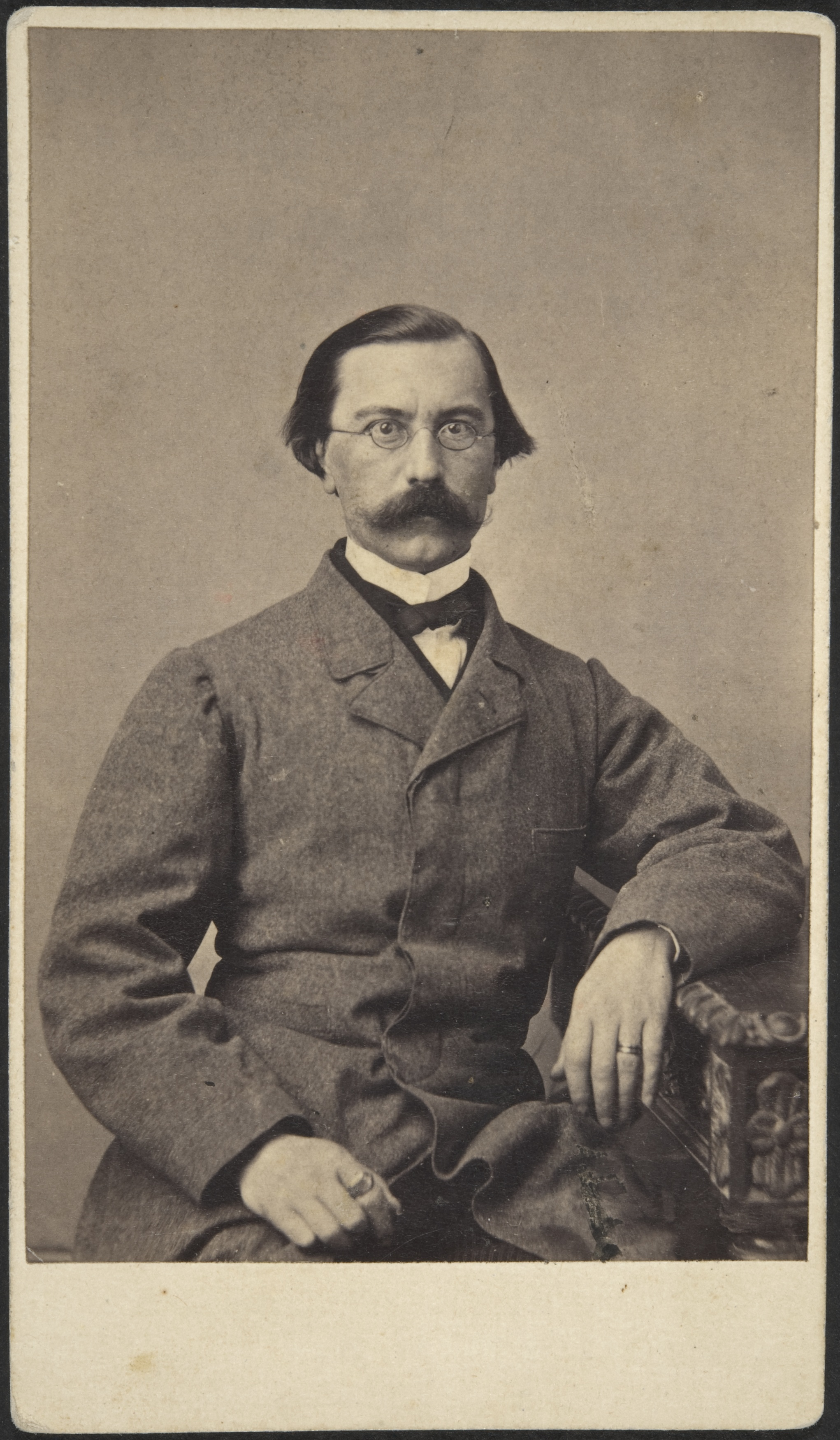 Photograph of the Finnish industrialist Frans Vilhelm von Frenckell (1821–1878).